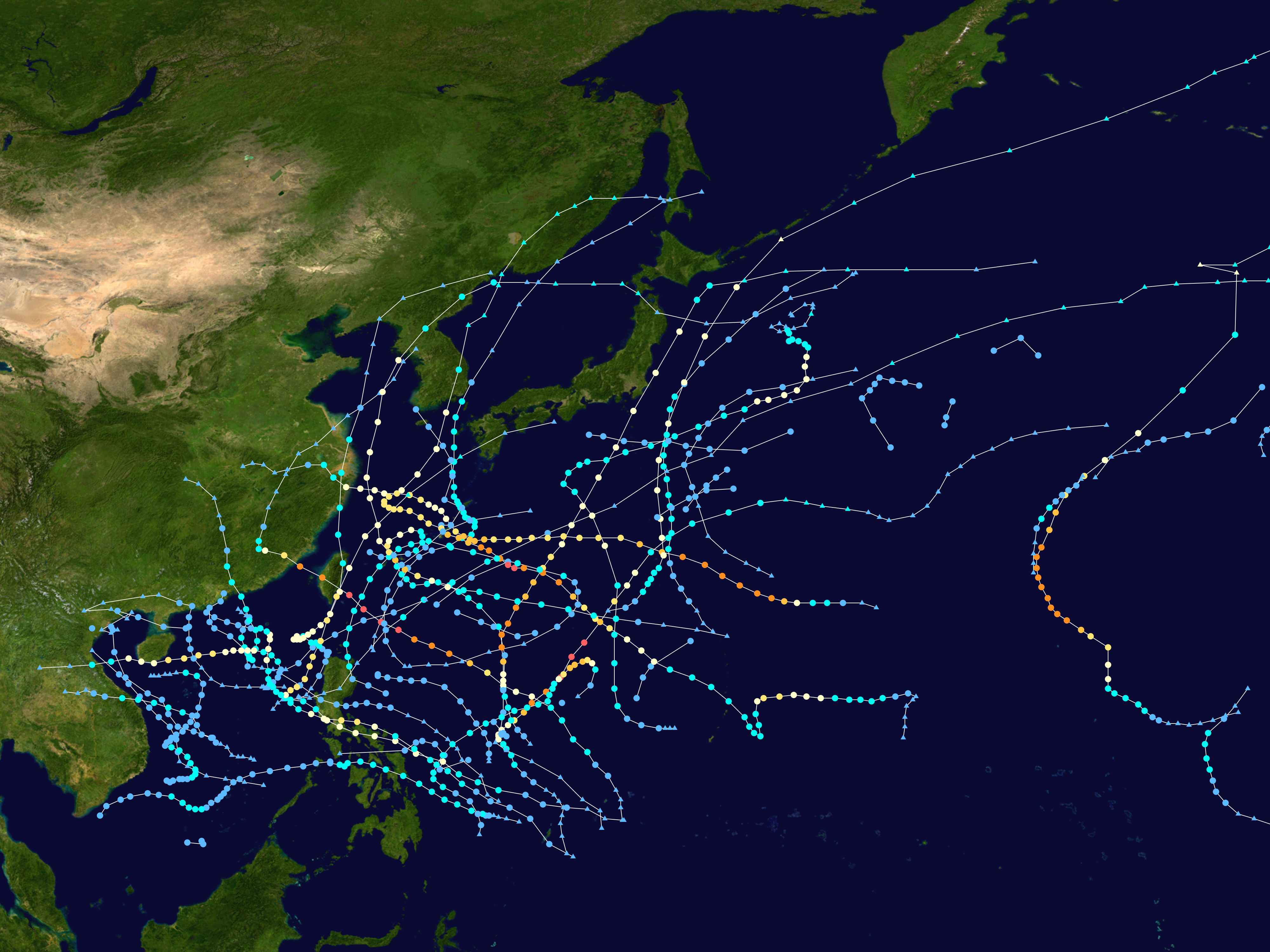 This map shows the tracks of all tropical cyclones in the 2000 Pacific typhoon season. The points show the location of each storm at 6-hour intervals. The colour represents the storm's maximum sustained wind speeds as classified in the Saffir-Simpson Hurricane Scale (see below), and the shape of the data points represent the type of the storm. Map generation parameters: --res 4000 --extra 1 --dots 0.2 --lines 0.04 --xmin 100 --xmax 180 --ymin 0 --ymax 60 Saffir–Simpson scale Tropical depression≤38 mph≤62 km/h Category 3111–129 mph178–208 km/h Tropical storm39–73 mph63–118 km/h Category 4130–156 mph209–251 km/h Category 174–95 mph119–153 km/h Category 5≥157 mph≥252 km/h Category 296–110 mph154–177 km/h Unknown Storm type Tropical cyclone Subtropical cyclone Extratropical cyclone / Remnant low / Tropical disturbance / Monsoon depression